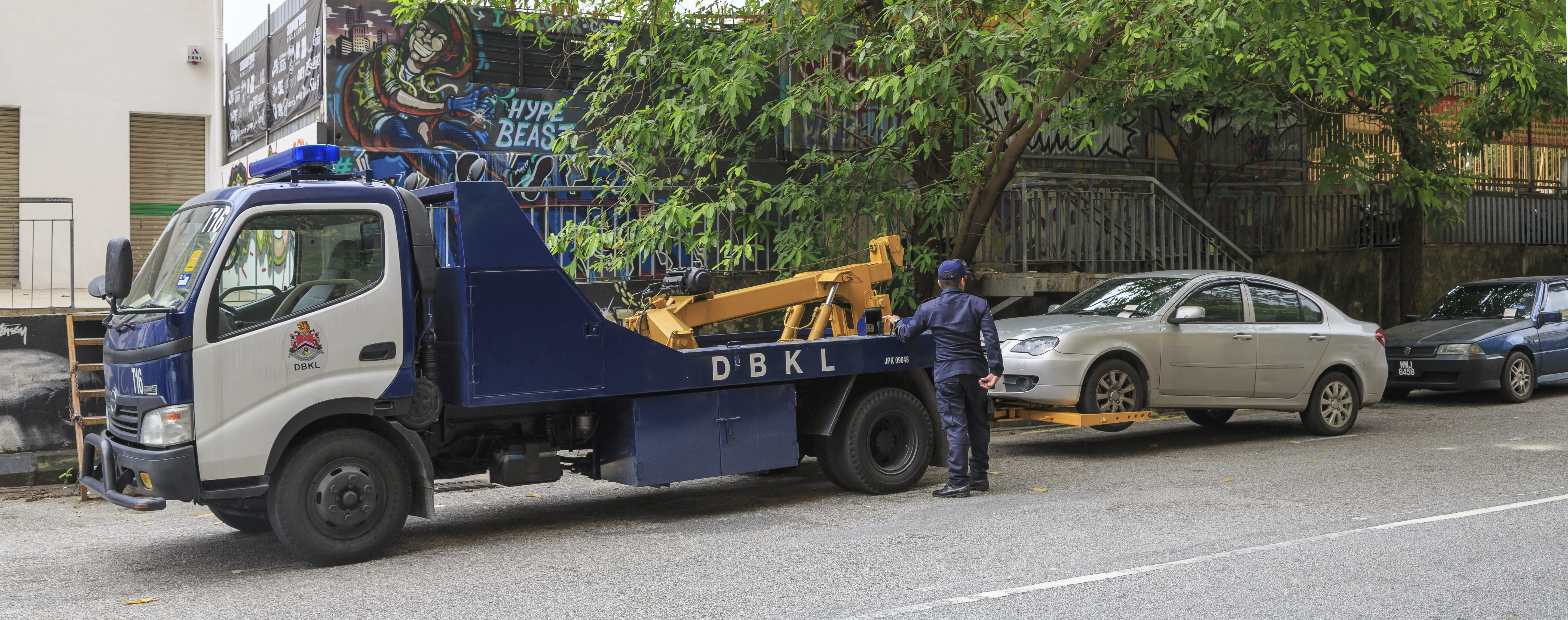 Kuala Lumpur, Malaysia: A tow truck of the Kuala Lumpur City administration